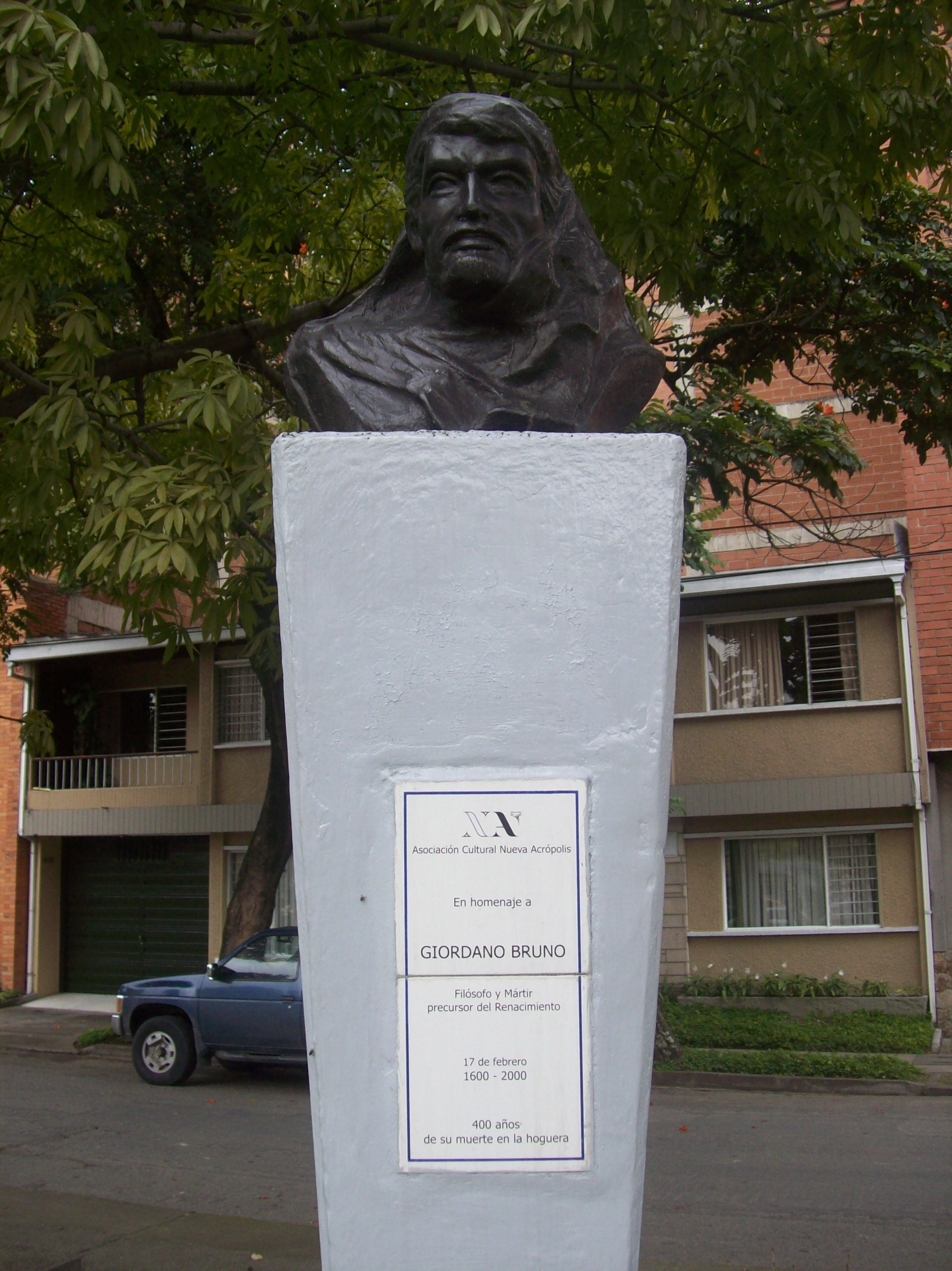 Bust of Giordano Bruno at Avenida Bolivariana, Medellín.